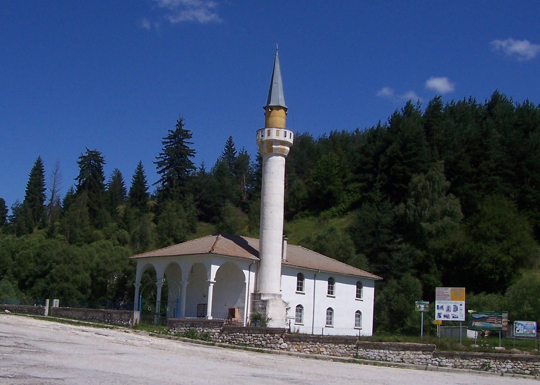 Mosque in the village of Yagodina, Bulgaria.